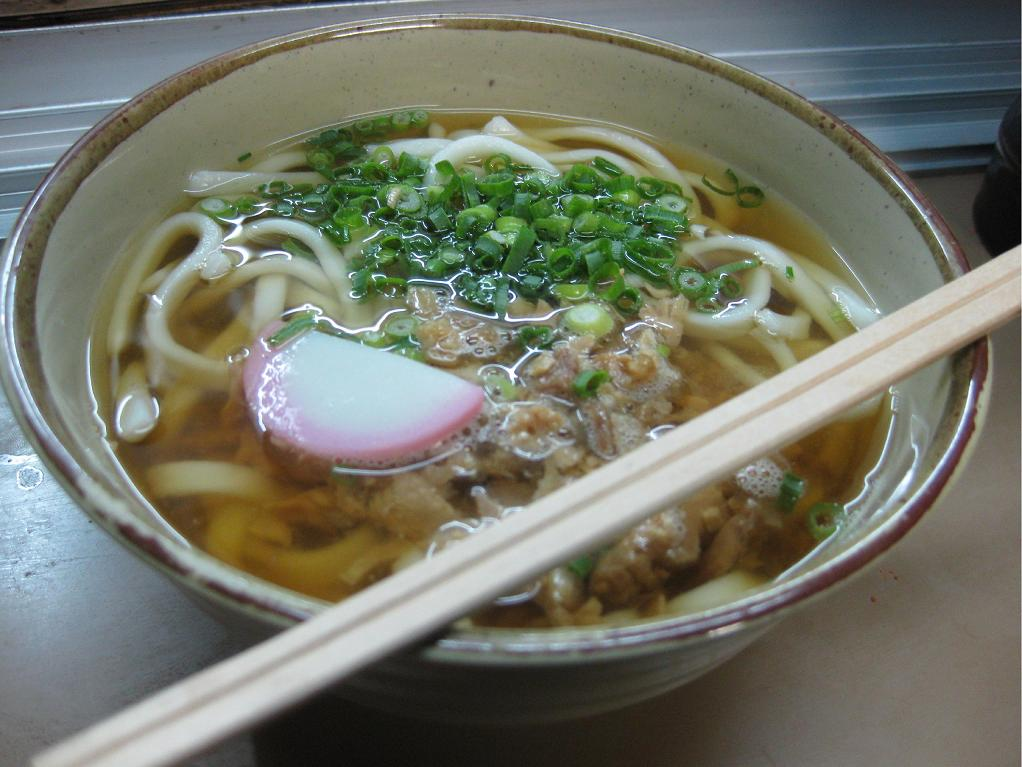 Kashiwa-udon sold in Tosu station